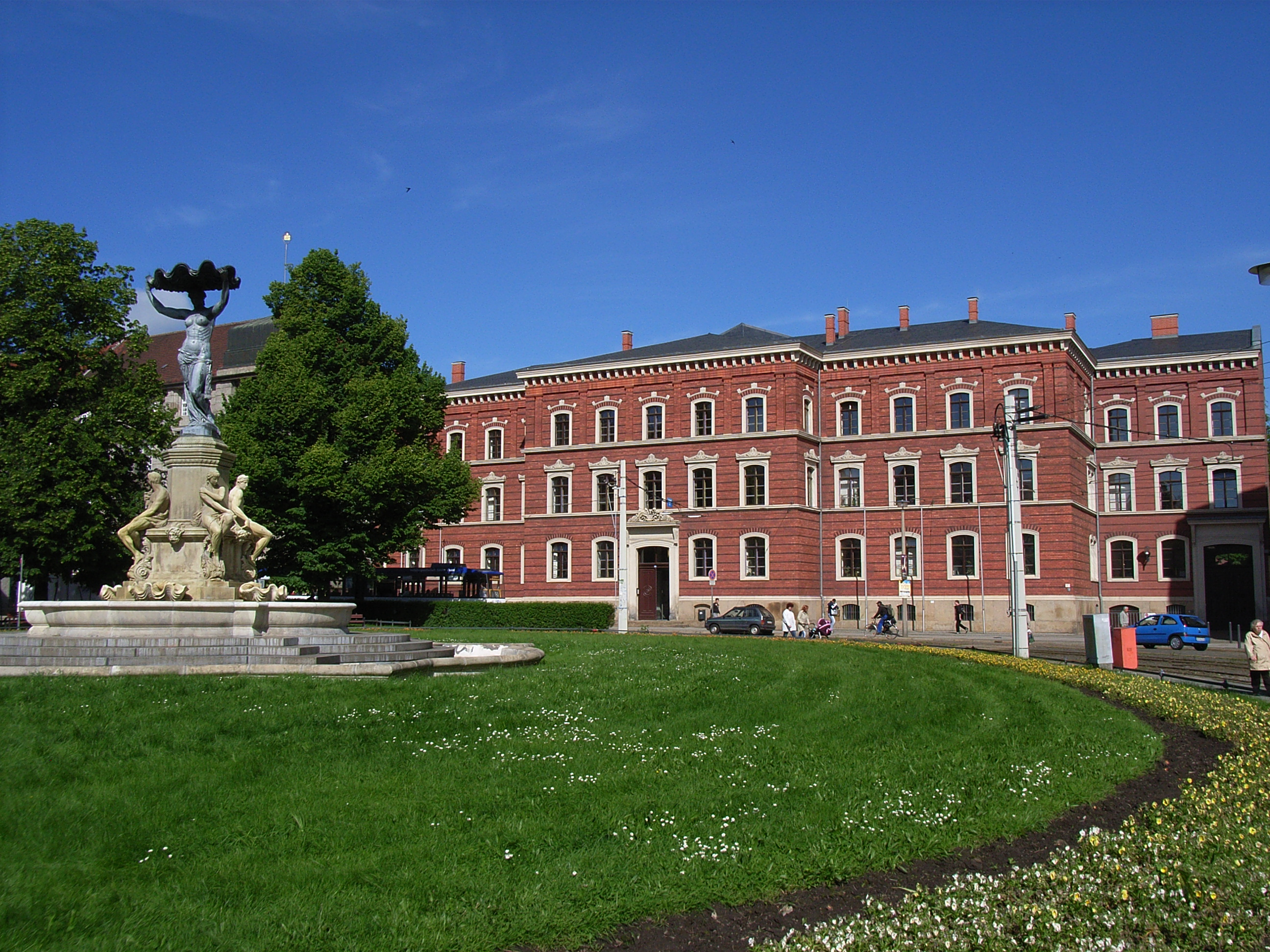 district and county court in Görlitz, Saxony